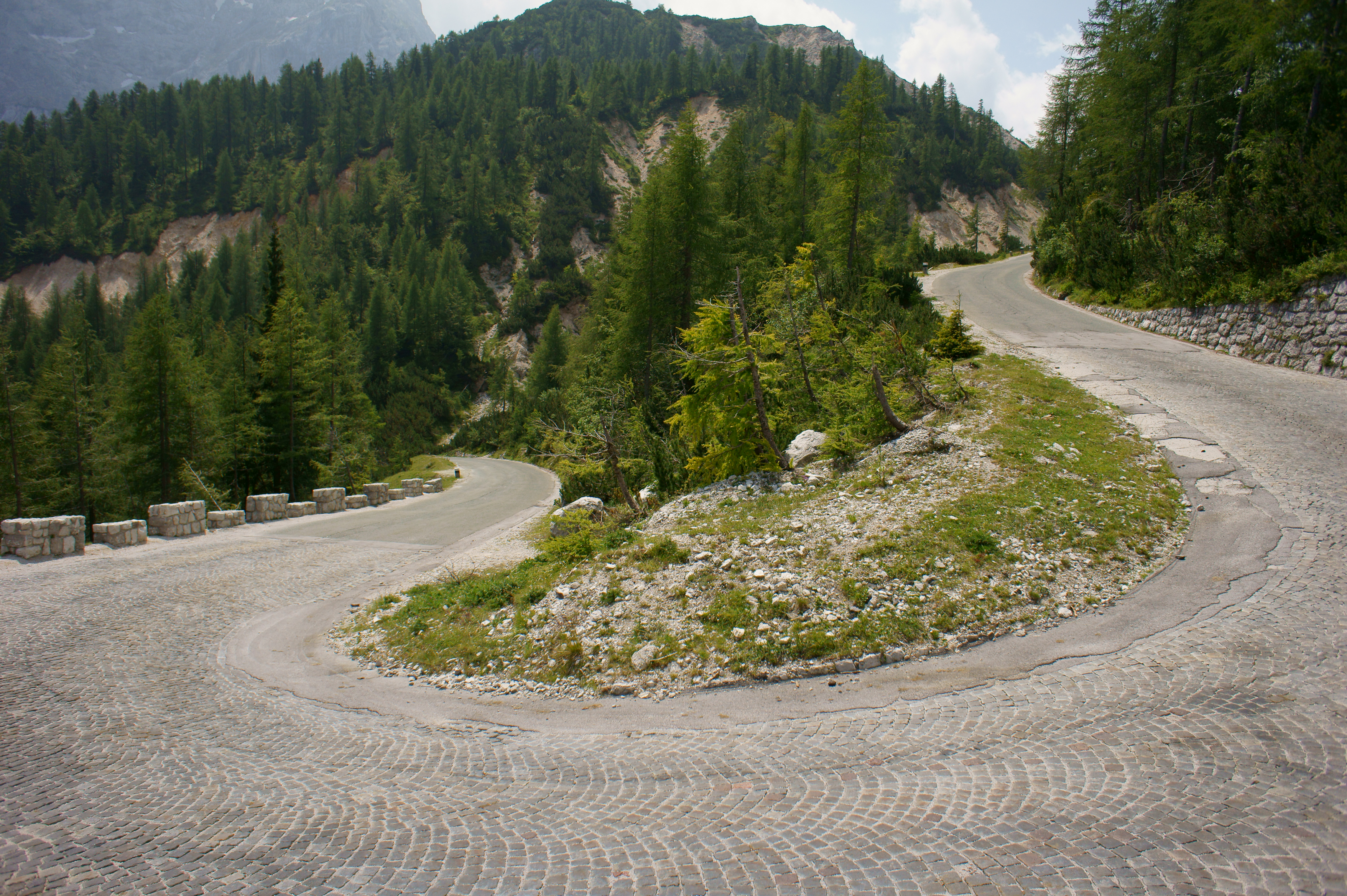 Vršič pass road, serpetines are made of sett.